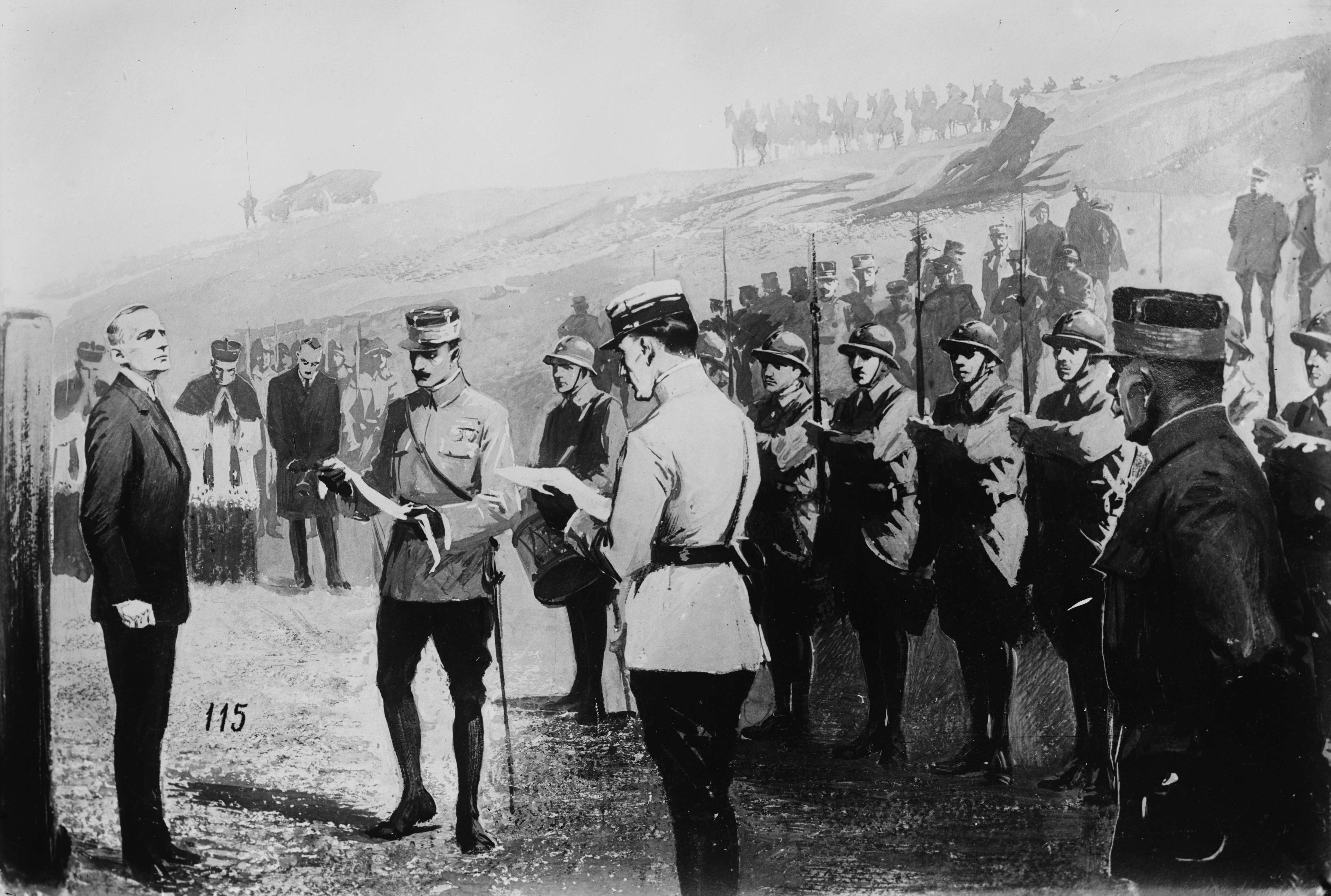 German Freikorps lieutenant Albert Leo Schlageter (1892-1923) facing the firing squad. Presumably a photograph of a painting or drawing.